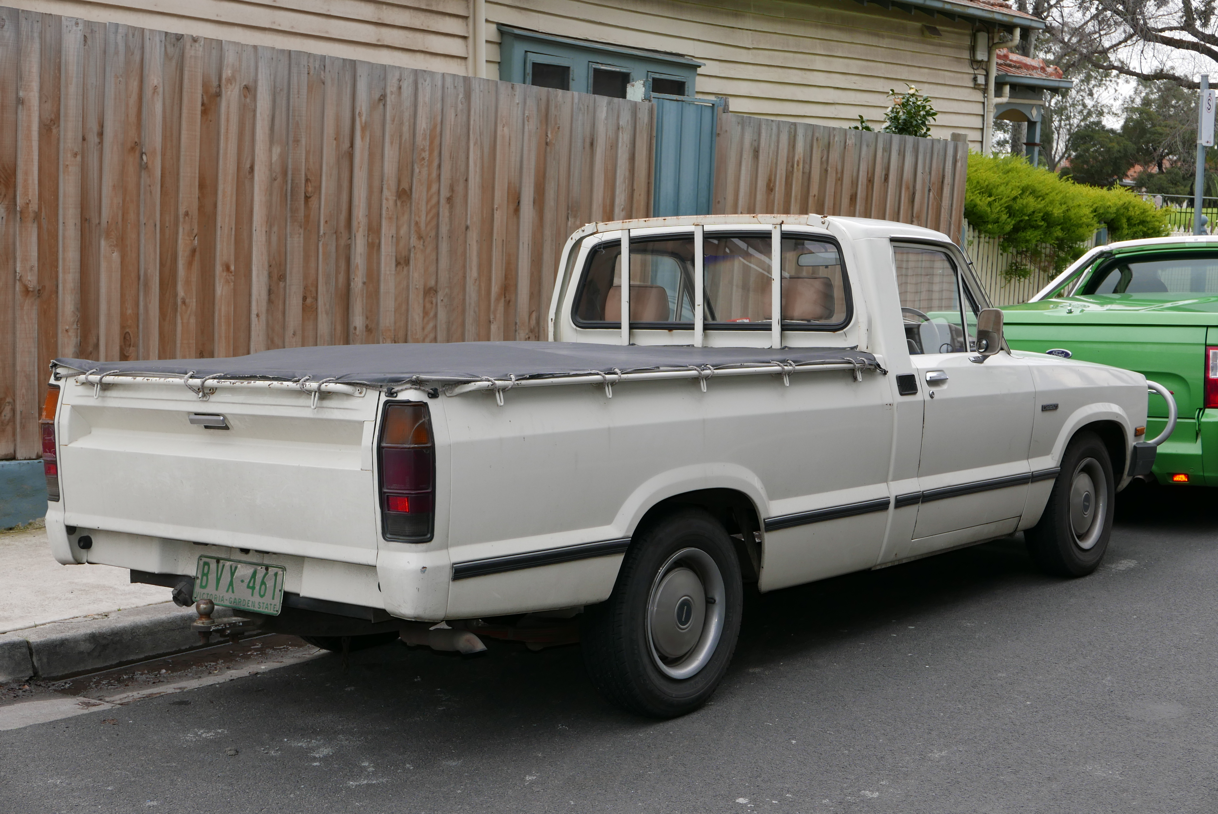 1983 Mazda B2200 (UD) utility. Photographed in Brunswick East, Victoria, Australia. Vehicle registration enquiry results Jurisdiction Victoria Registration BVX461 Chassis code Not available Engine code P22736 Compliance date Not available Year of manufacture 1983